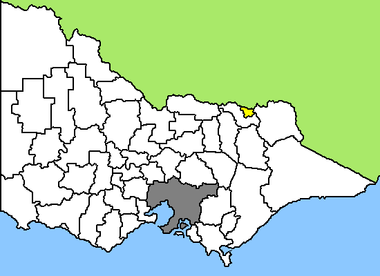 Map of Victoria/Australia, LGA of Wodonga City highlighted